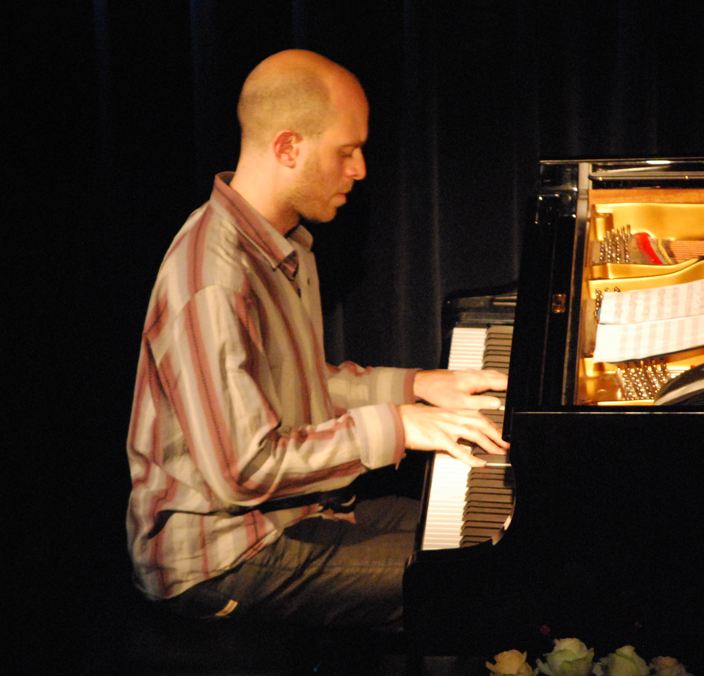 Jason Lindner at a concert with Anat Cohen, Treibhaus Innsbruck 2009